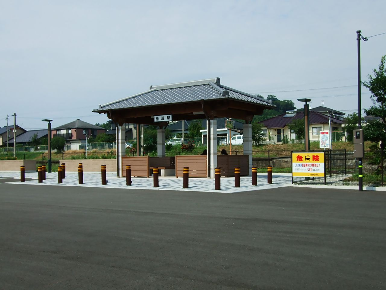 Ikejiri Station, Hitahikosan Line, Kyushu Railway Company.